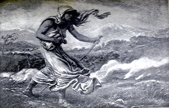 This elementary history of Rome presents short stories of the great heroes, mythical and historical, from Aeneas and the founding of Rome to the fall of the western empire. Around the famous characters of Rome are graphically grouped the great events with which their names will forever stand connected. Vivid descriptions bring to life the events narrated, making history attractive to the young, and awakening their enthusiasm for further reading and study.